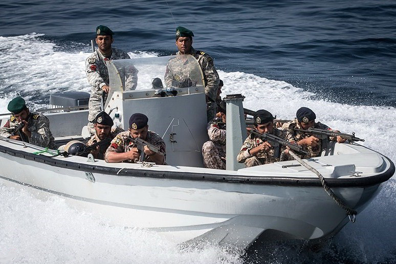 Velayat 94 Military exercise that hold in February 2016 in the range of Strait of Hormuz and northern Indian Ocean